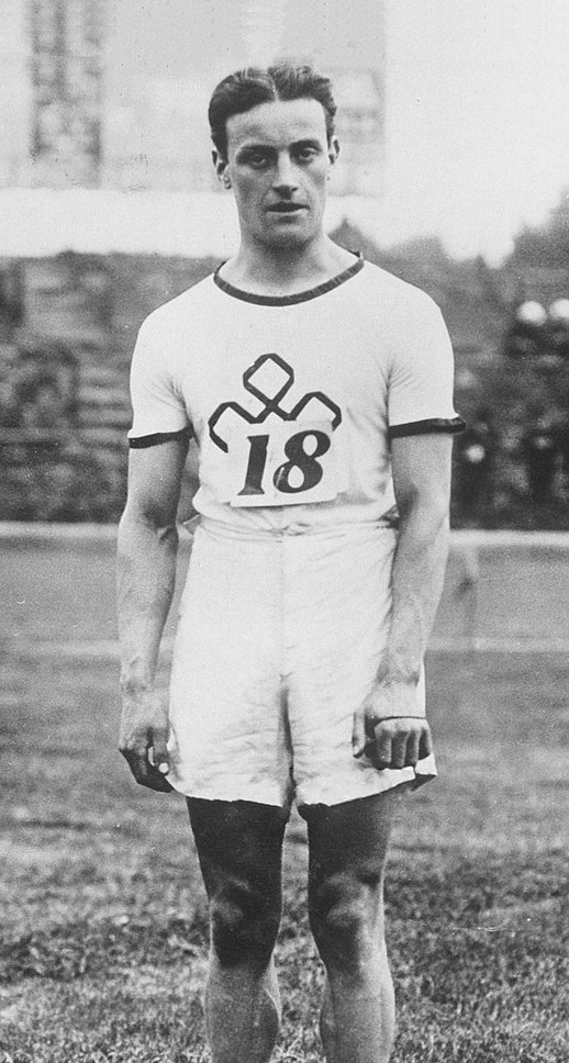 Olympic Games, Stockholm, Sweden, Men's 200 Metres, Great Britain's W,R, Applegarth who won the bronze medal